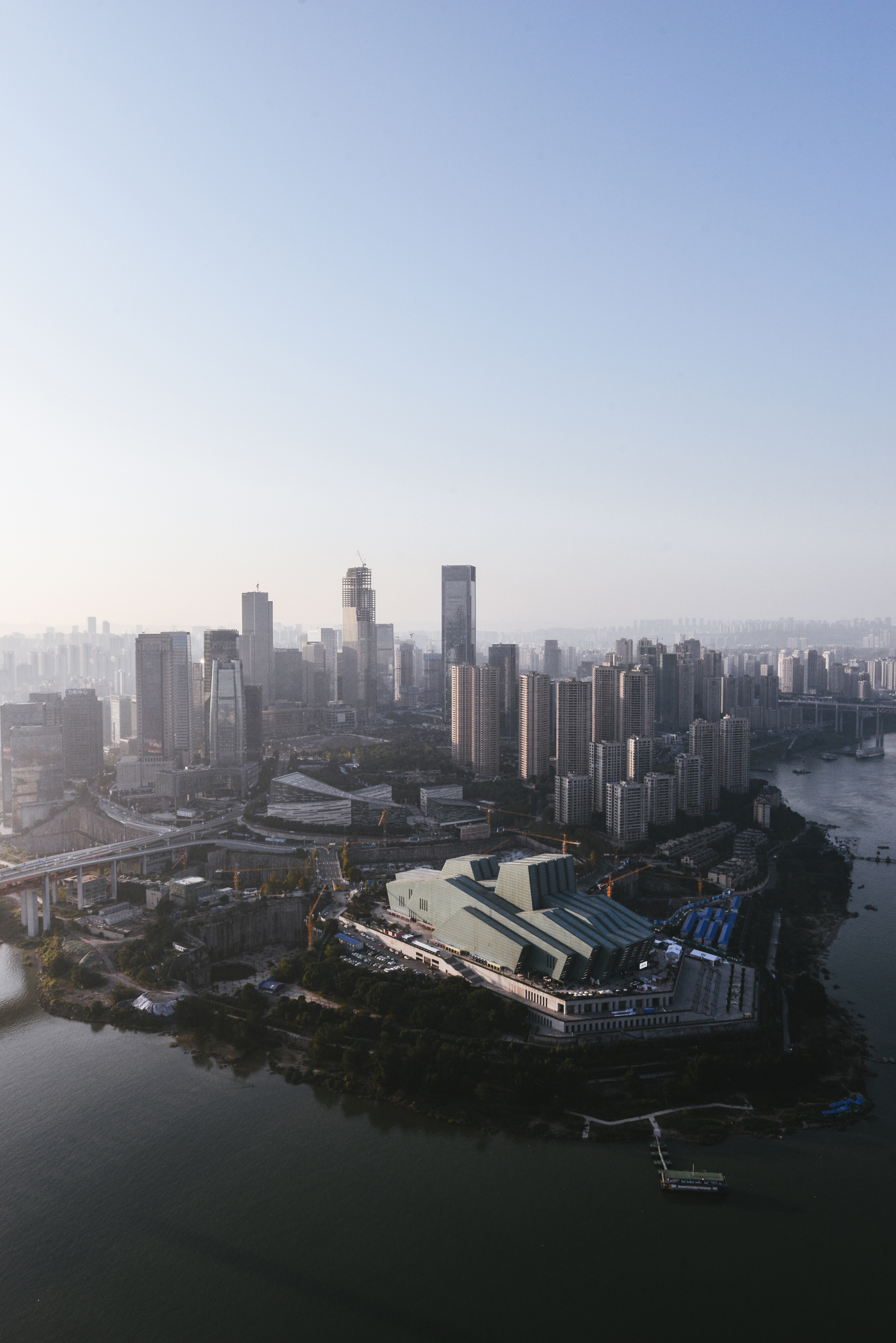 Jiangbeizui Central Business District from above, taken in 2018